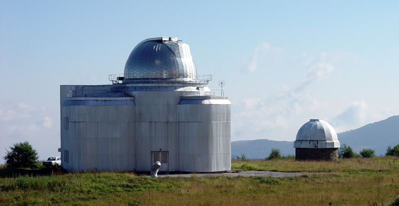 Другие обсерватории (trans. "Other observatories [at the Special Astrophysical Observatory of the Russian Academy of Science]")